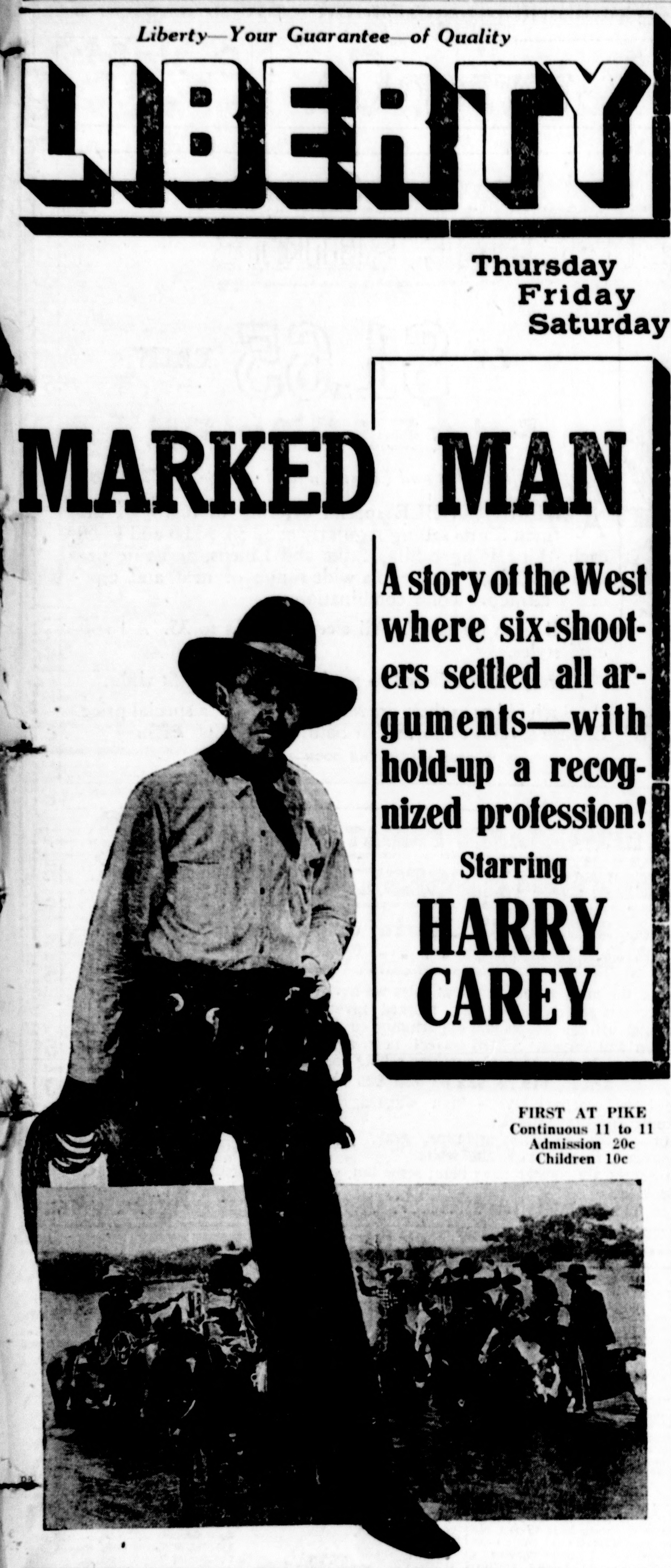 A Marked Man is a 1917 American silent Western film, directed by John Ford and featuring Harry Carey. This is a newspaper advert for the film.